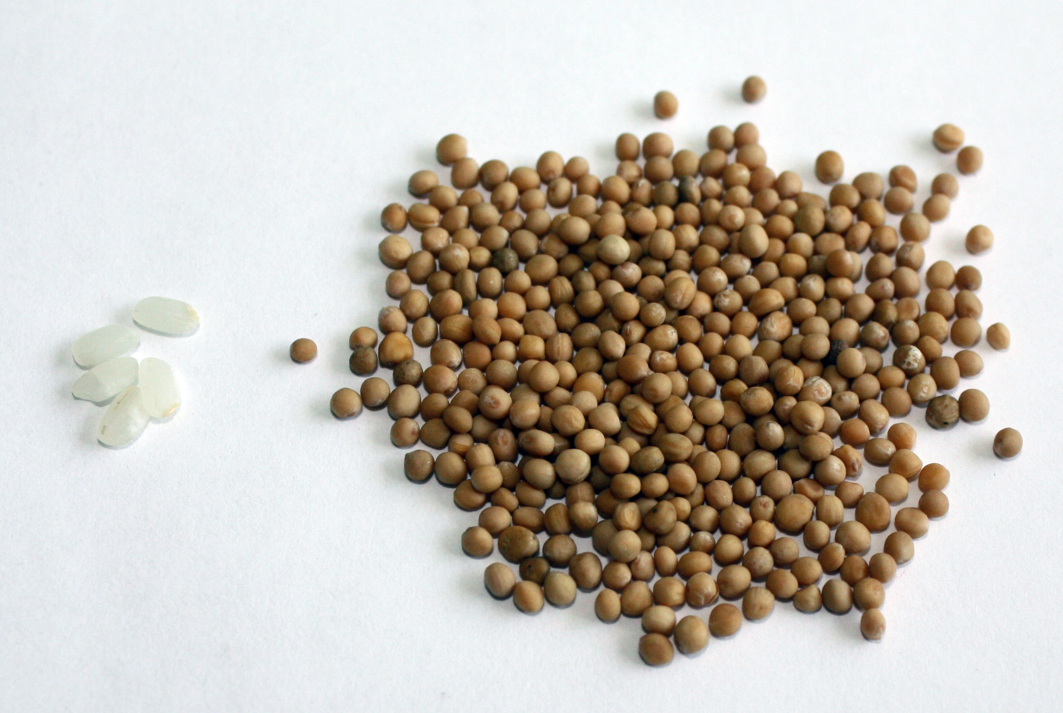 Sinapis (white mustard) seeds (right) next to rice seeds (left)